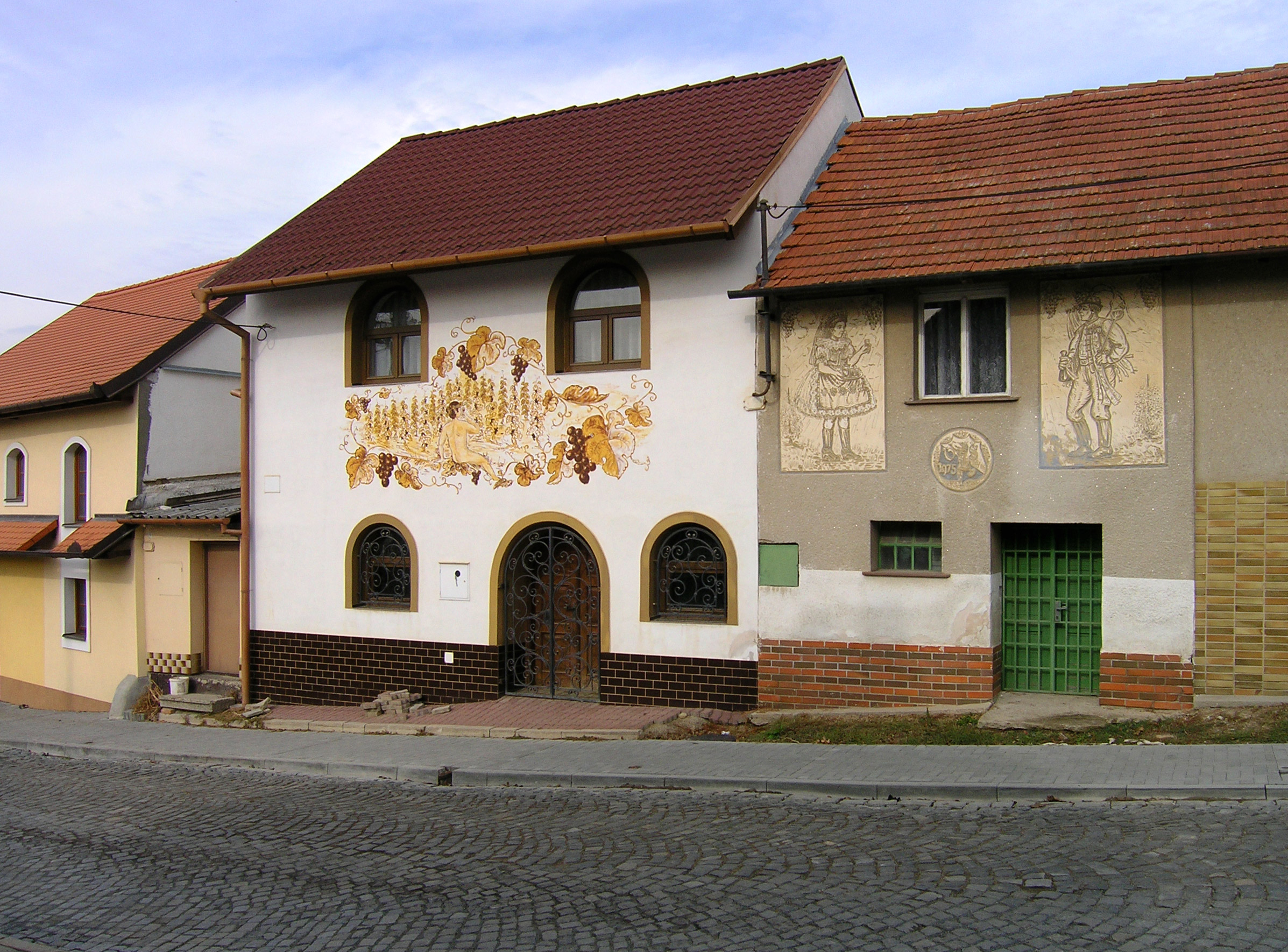 Middle part of Kobylí village, Czech Republic